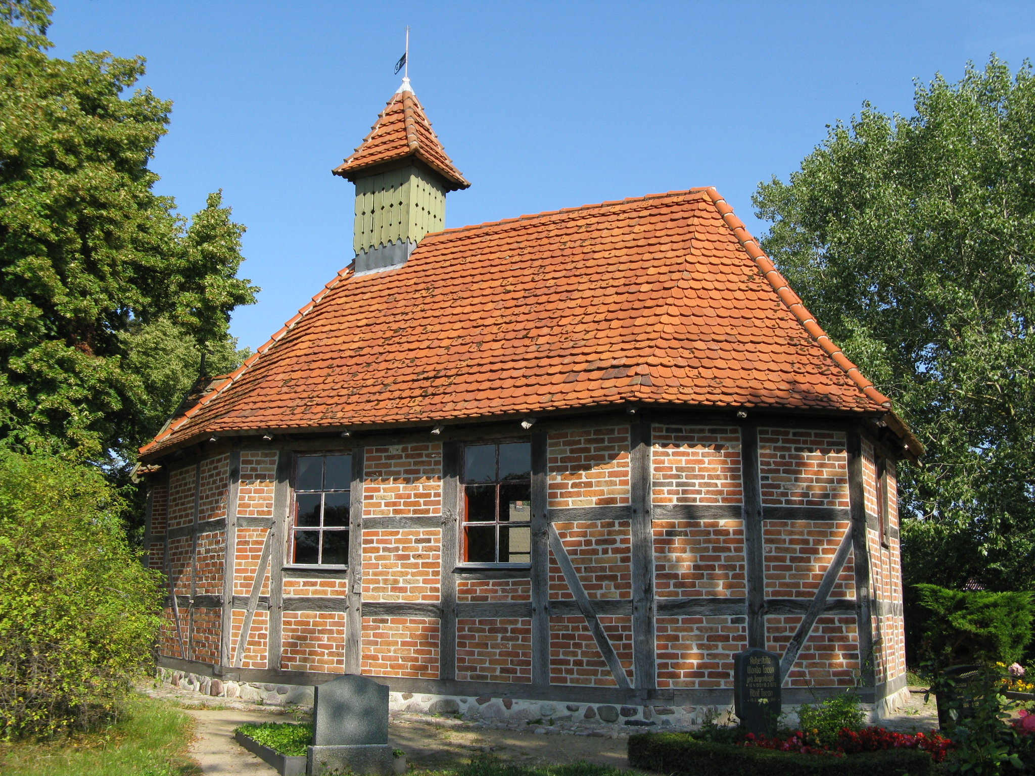 Church in Sarmstorf, disctrict Güstrow, Mecklenburg-Vorpommern, Germany